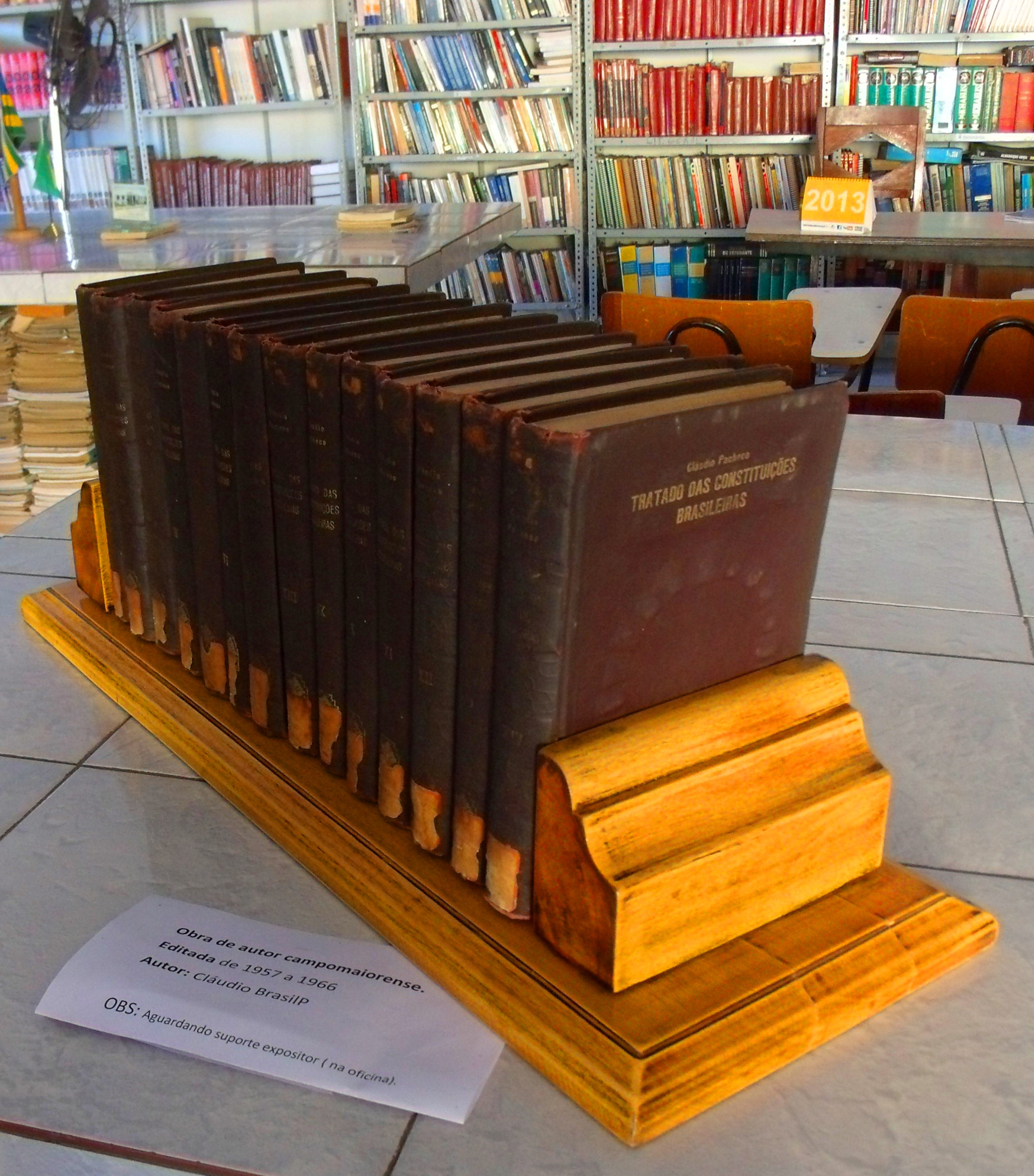 The 14 volumes of the Treaty of the Constitutions of the Brazilian jurist Claudio Pacheco Brasil.